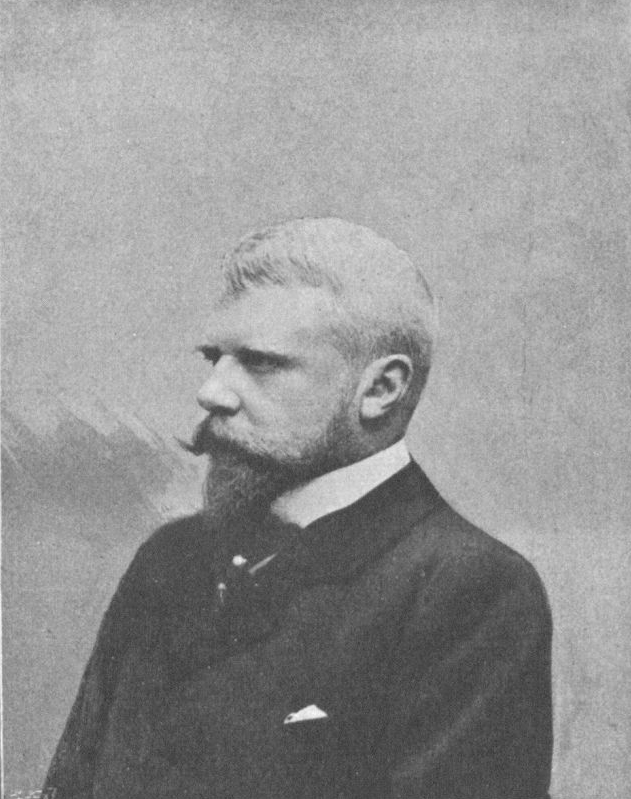 Erwin Freiher von Schwartzenau (1858-1926), Austrian politician